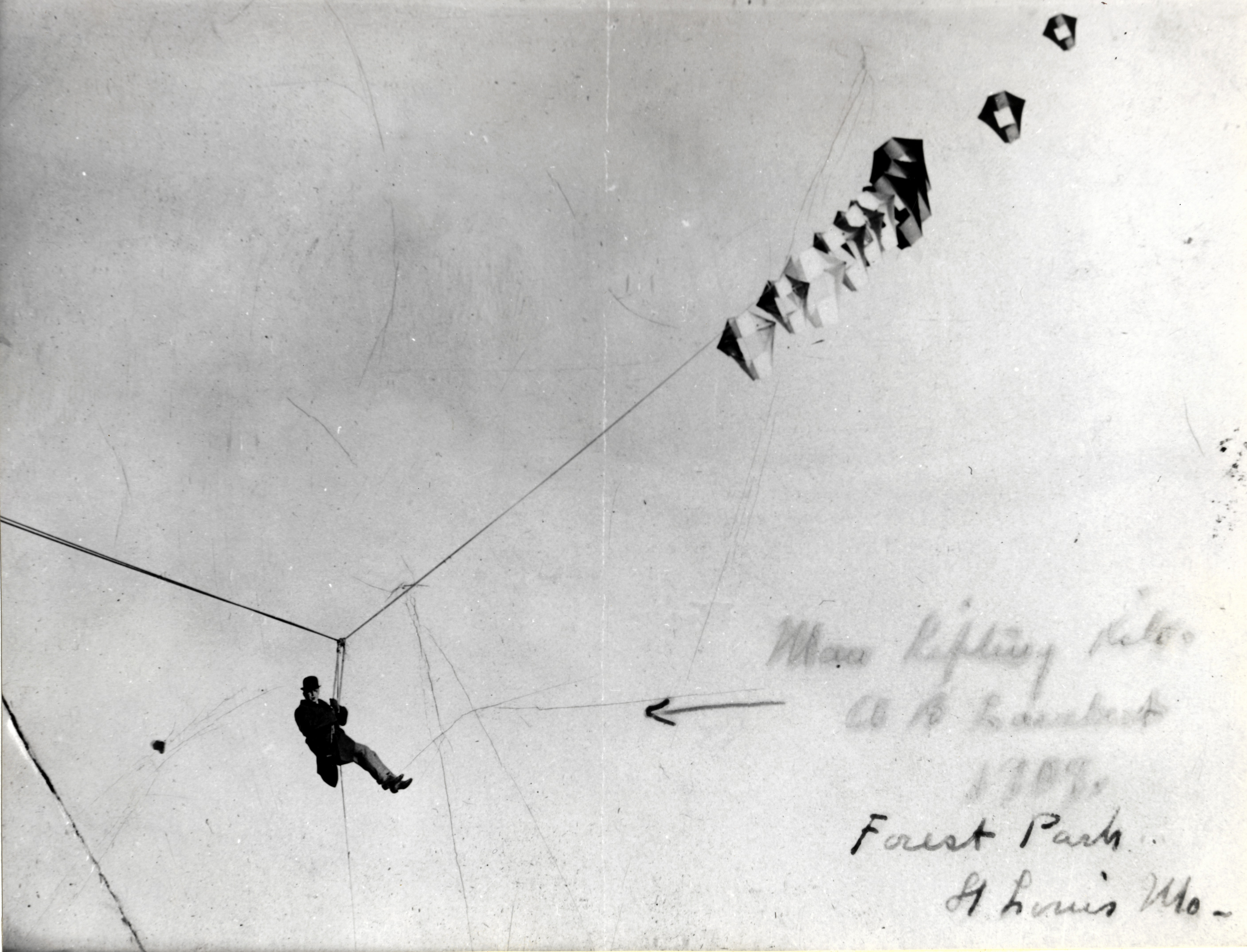 Title: Albert Bond Lambert lifted by a kite at the Forest Park airfield.